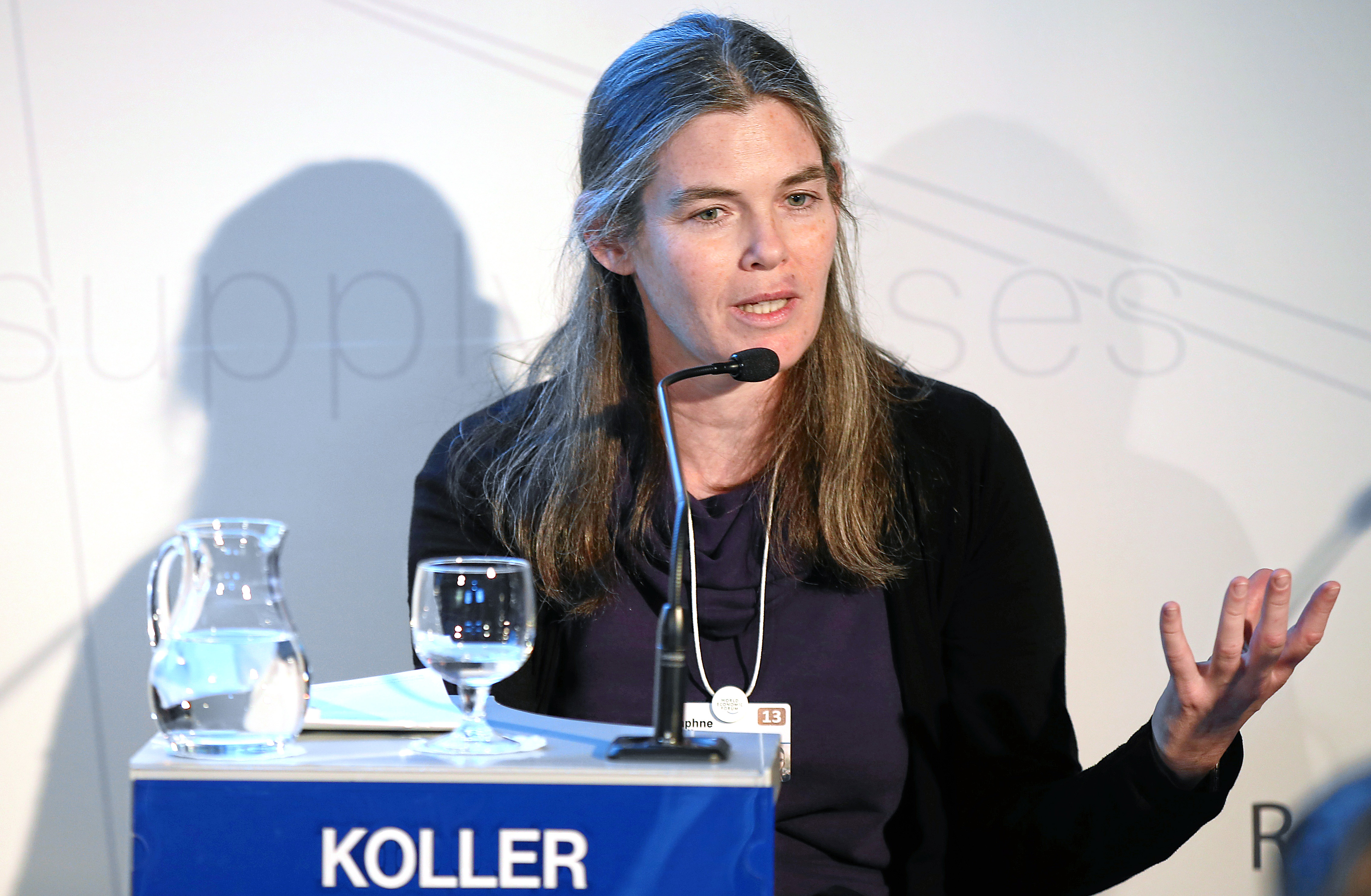 DAVOS/SWITZERLAND, 24JAN13 - Daphne Koller, Professor, Computer Science Department, Stanford University, USA; Global Agenda Council on the Future of Universities makes a point during the session 'The Future of Higher Education' at the Annual Meeting 2013 of the World Economic Forum in Davos, Switzerland, January 24, 2013. . . Copyright by World Economic Forum. . Mirko Ries